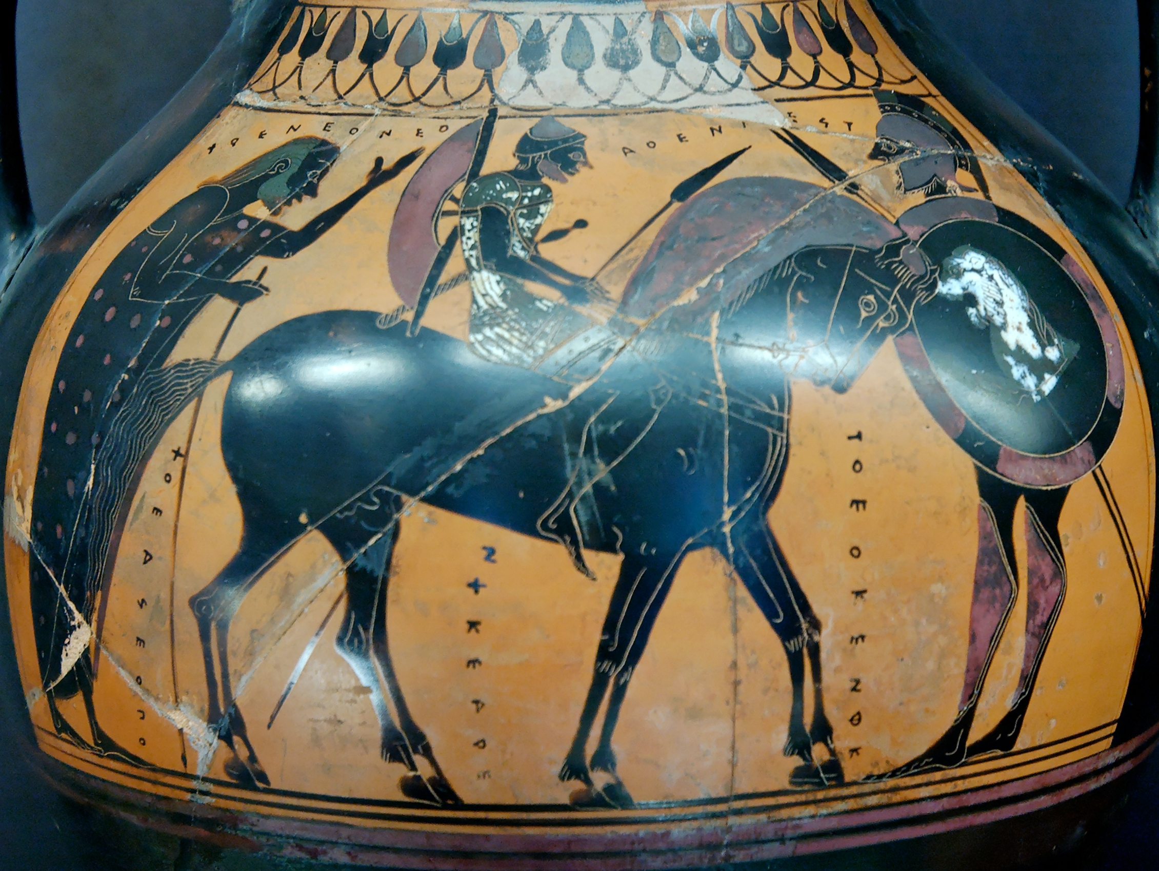 Warrior's departure. Attic black-figure amphora, ca. 550–540 BC. From Athens.